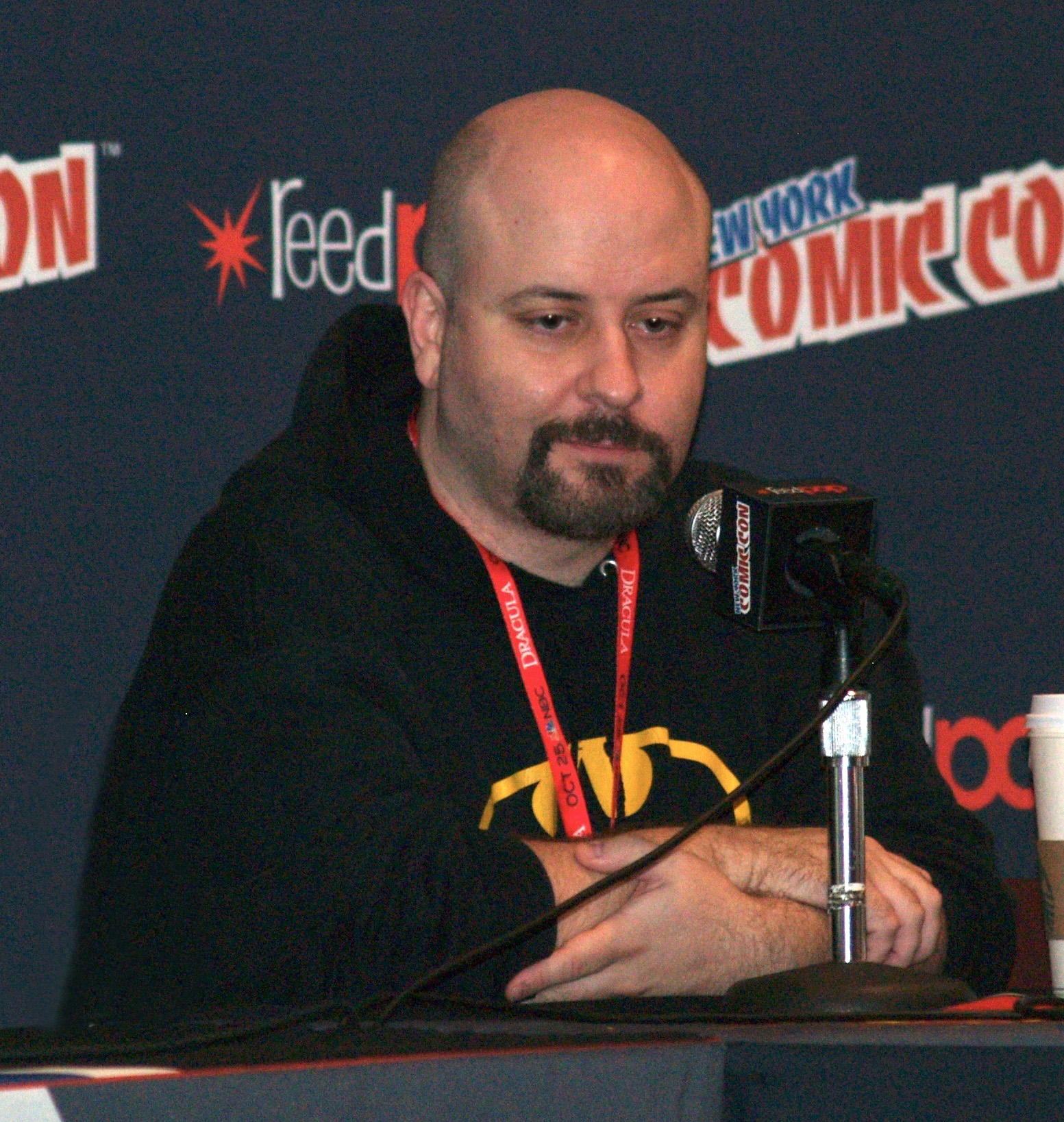 Comic book writer and novelist Marc Andreyko speaking on a panel regarding The Illegitimates, the IDW comic book miniseries created by him and actor/comedian Taran Killam, on Sunday, October 13, 2013 at the Jacob K. Javits Convention Center in Manhattan, Day 4 of the 2013 New York Comic Con. This photo was created by Luigi Novi. It is not in the public domain, and use of this file outside of the licensing terms is a copyright violation.